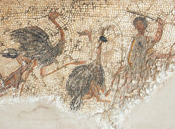 A man kills ostriches in this scene from the Zliten mosaic.